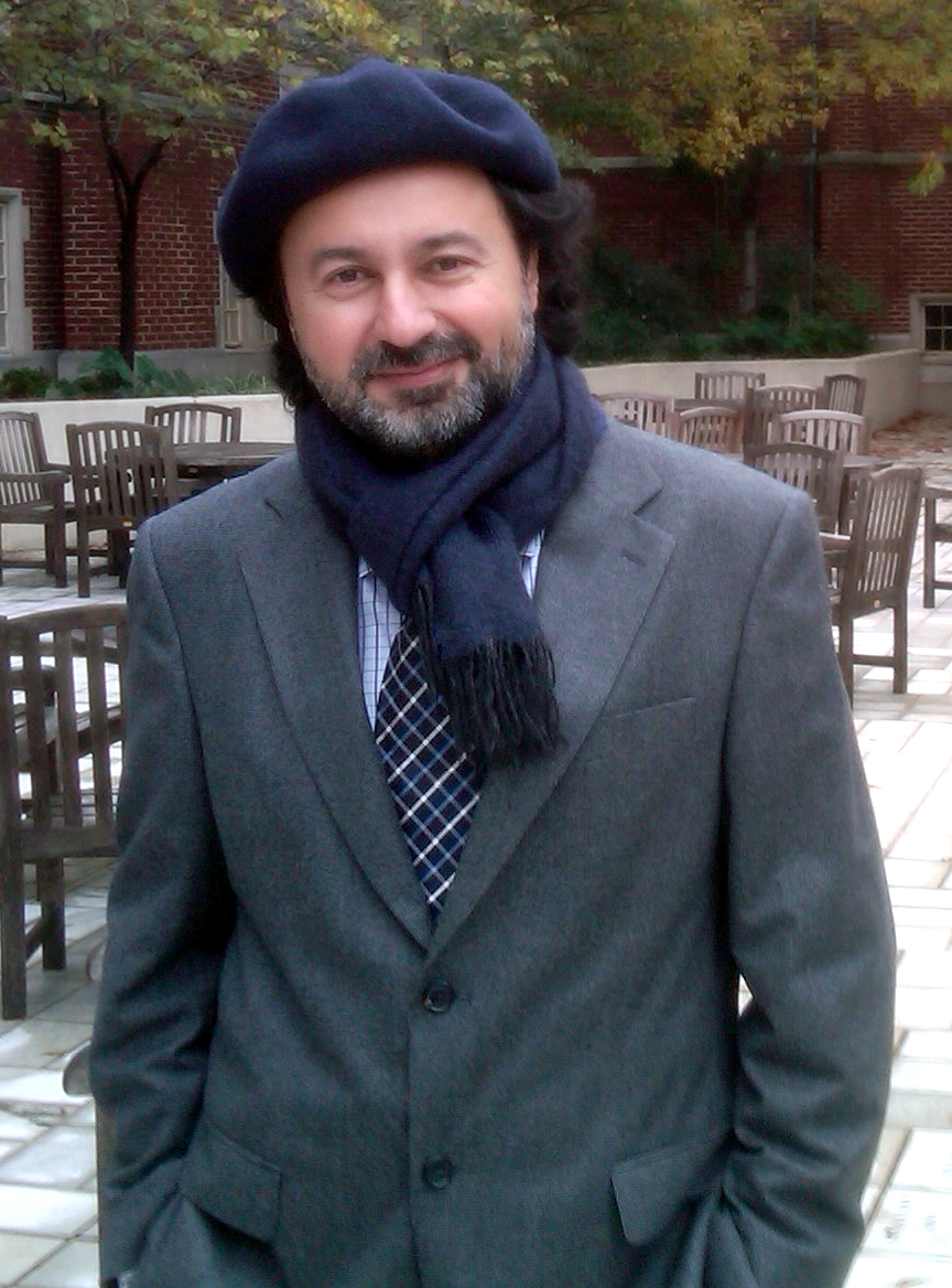 Touraj Daryaee, Iranian faculty of UCLA.